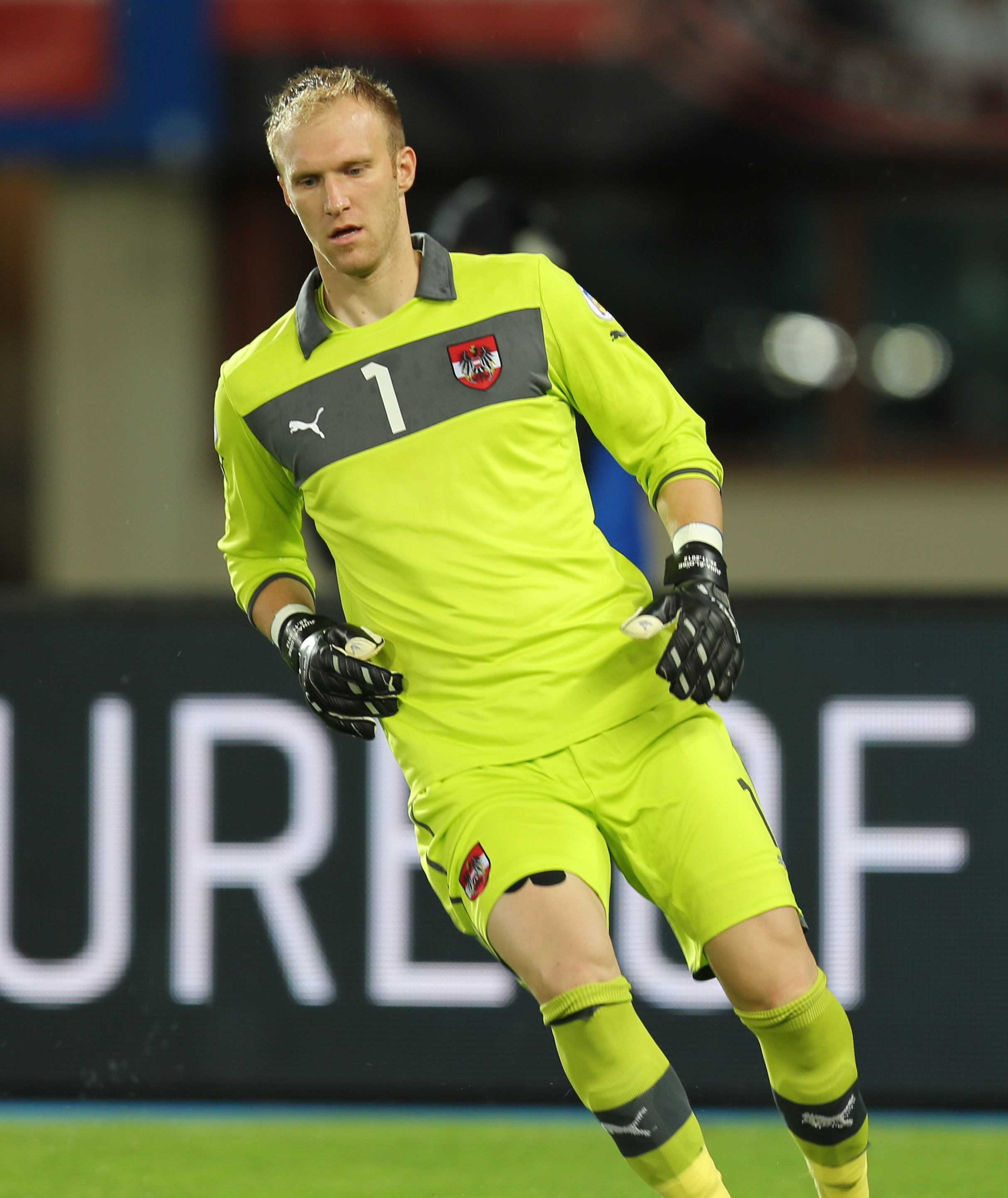 2014 FIFA World Cup qualification (UEFA), Group C: Republic of Ireland national football team at 10. September 2013 before the match against the Austria national football team in the Ernst-Happel-Stadion in Vienna. Here: Robert Almer, Austrian goalkeeper. The making of this work was supported by Wikimedia Austria. For other files made with the support of Wikimedia Austria, please see the category Supported by Wikimedia Österreich.